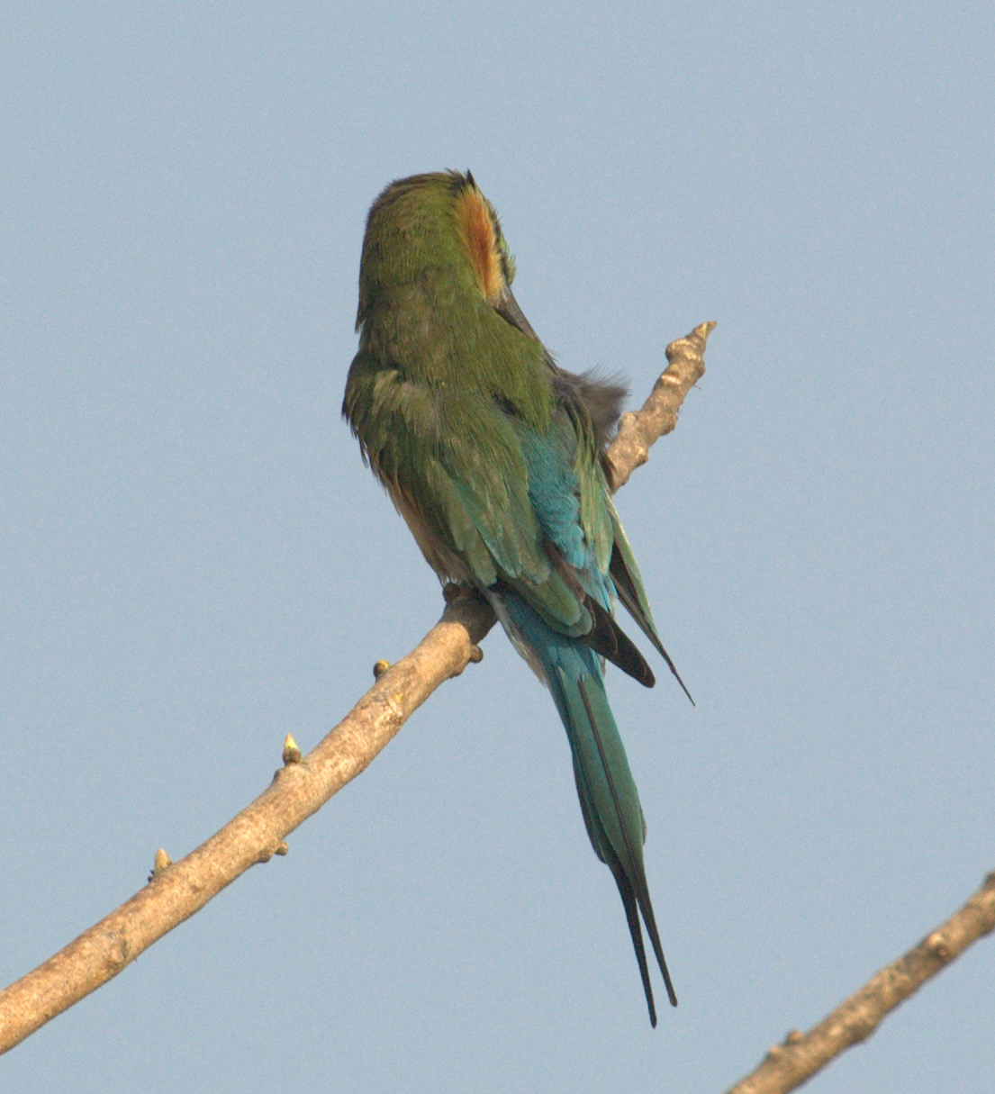 Blue Tailed Bee Eater Merops philippinus